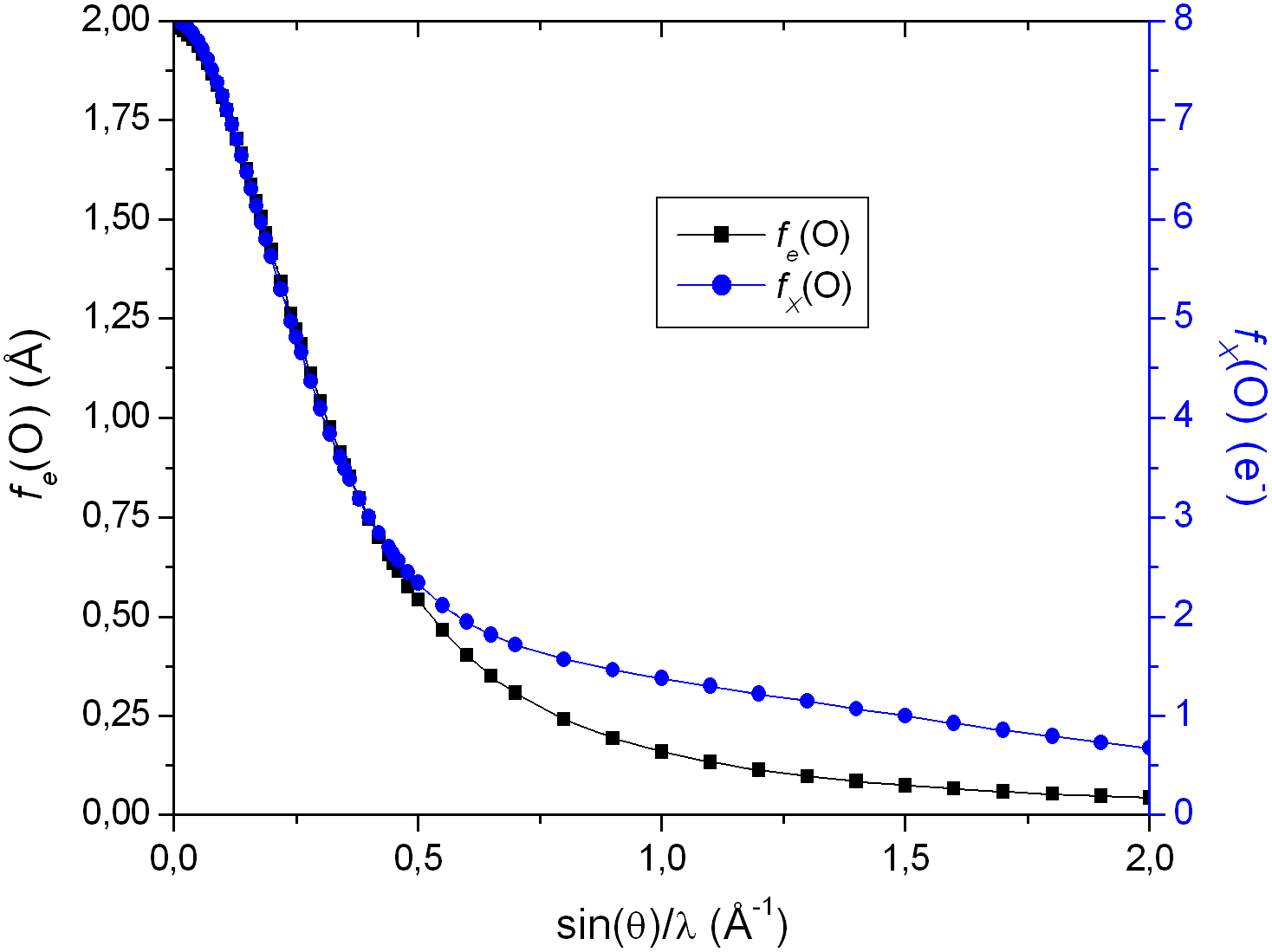 Atomic form factor of oxygen for electrons (in black) and X-rays (in blue). Graph drawn from the data published in International Tables for Crystallography, vol. C.